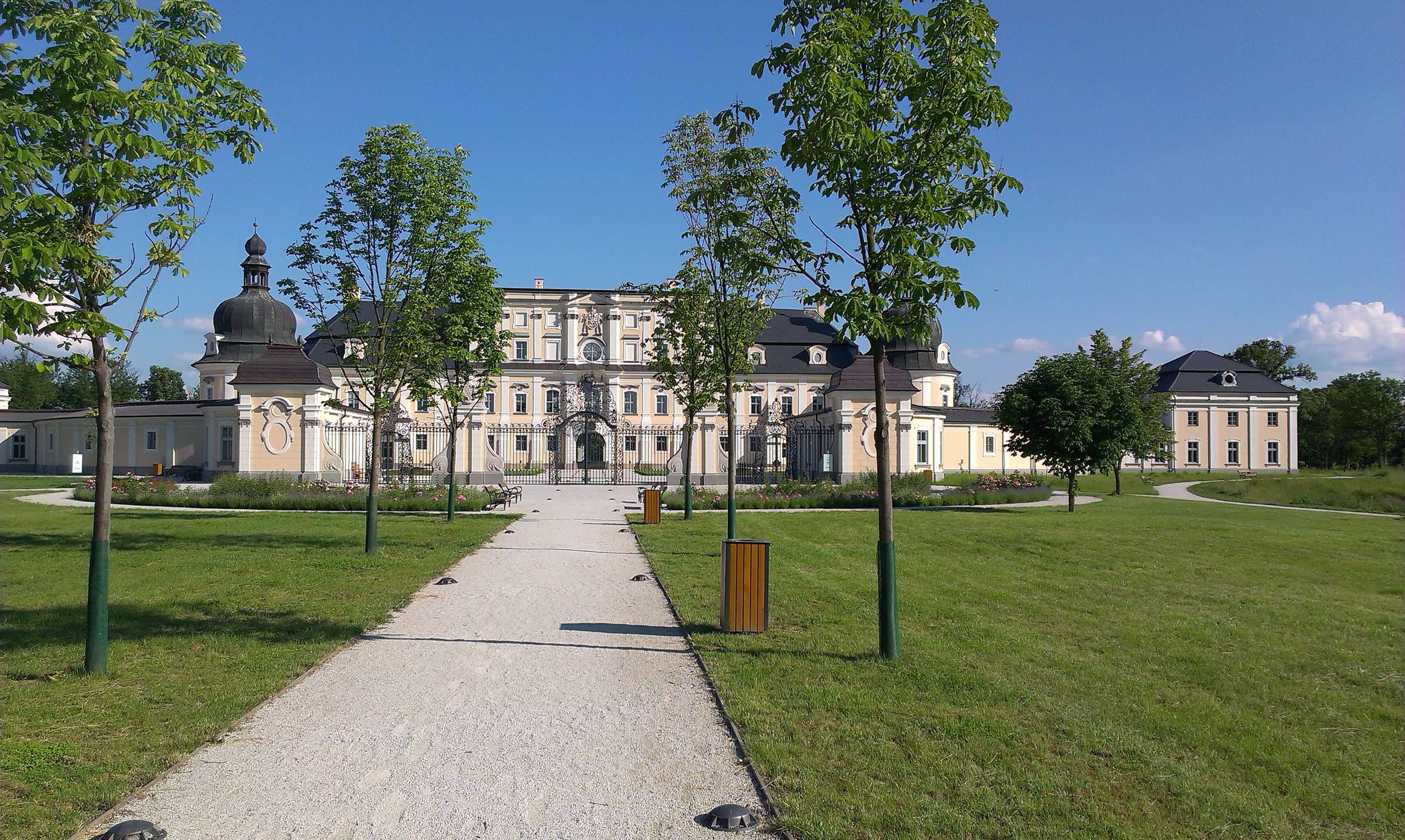 The L'Huillier-Coburg Castle from far in Edelény, Hungary.